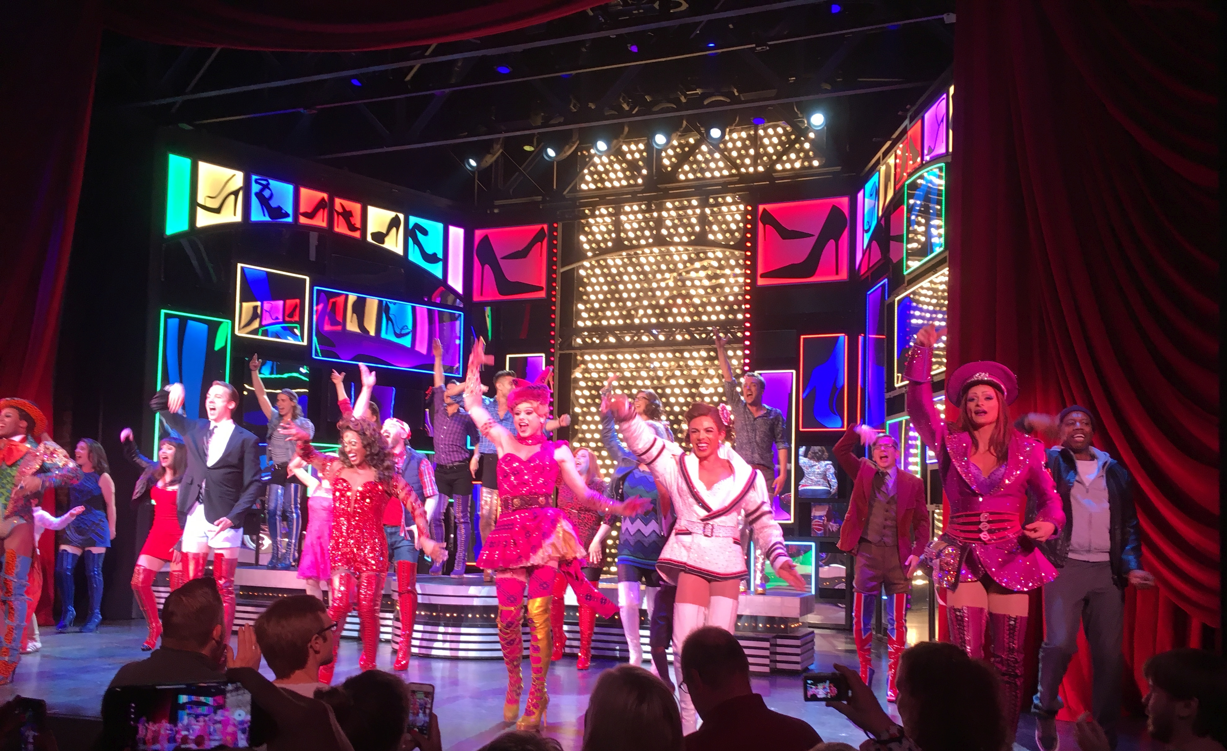 Musical "Kinky Boots" in Operettenhaus, Hamburg, Germany (May 2018) -- In the encore of the German show, taking pictures and publishing them in the net is officially allowed.